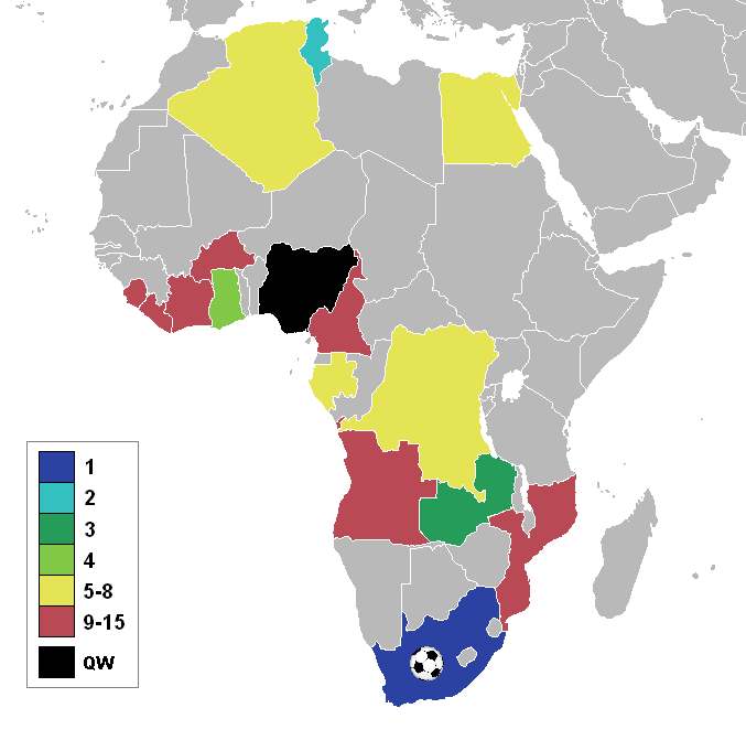 Countries positions in the African Cup of Nations 1st 2nd 3rd 4th 5th-8th 9th-15th Qualified but withdrew Football denotes host nation